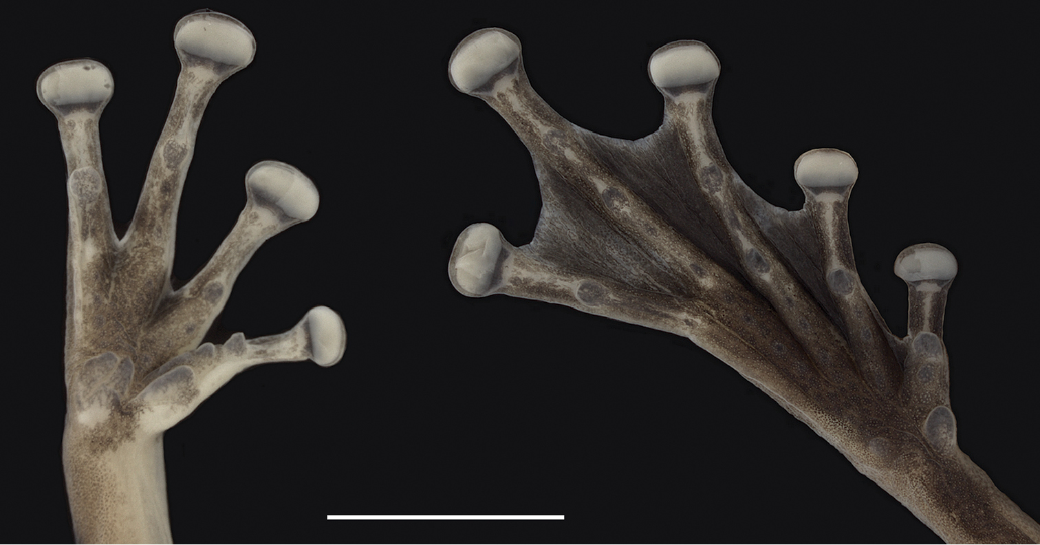 Hand and foot of holotype of Scinax onca sp. n. Ventral view of the hand and foot of the preserved holotype of Scinax onca sp. n. Scale bar 5 mm.